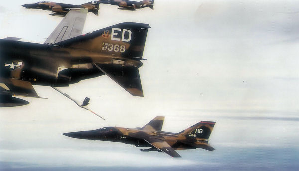 F-111, KC-135 and F-4E refueling over Thailand from Takhli Royal Thai Air Force Base.